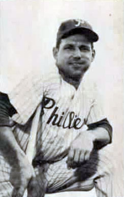 A Bowman Gum baseball card image of Bill Nicholson